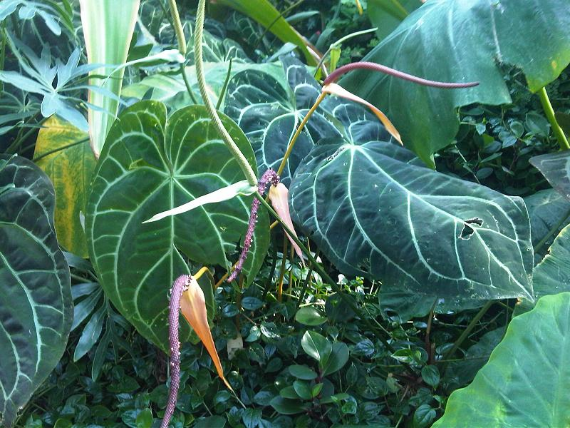 Anthurium crystallinum in Kew Gardens, England.